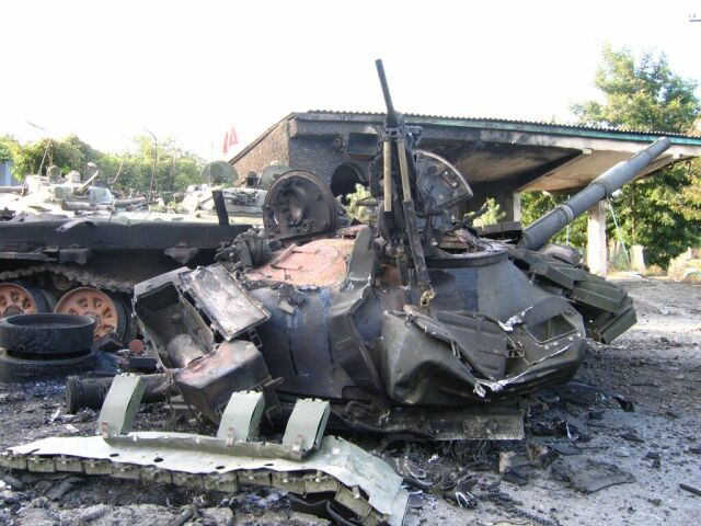 August 2008. Burned Georgian tank in Tskhinval